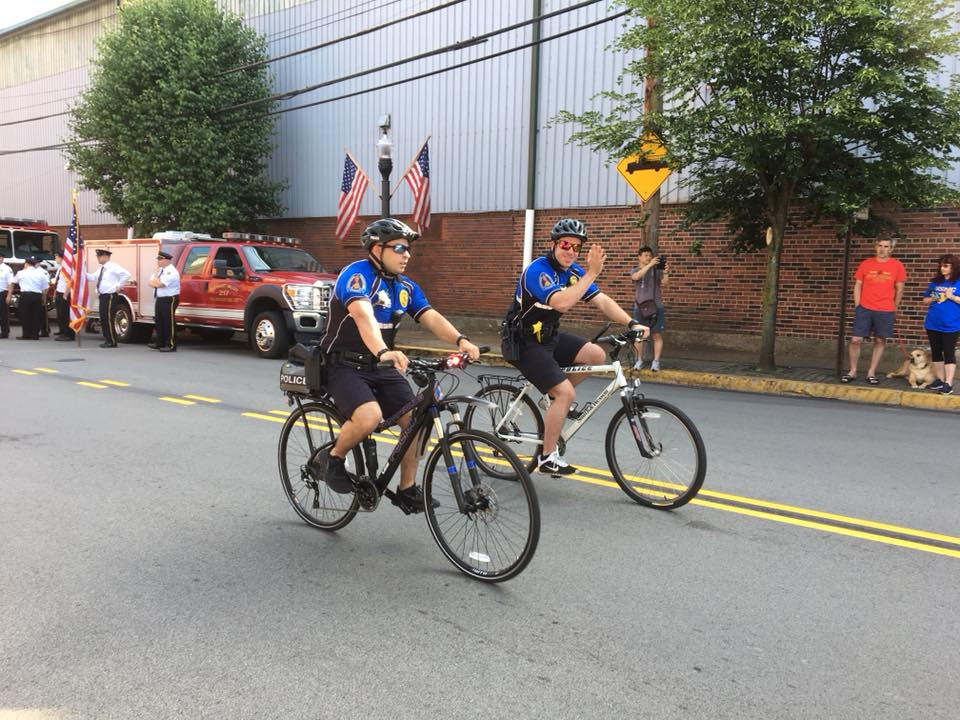 Sharpsburg Police Dept. - Bicycle Patrol